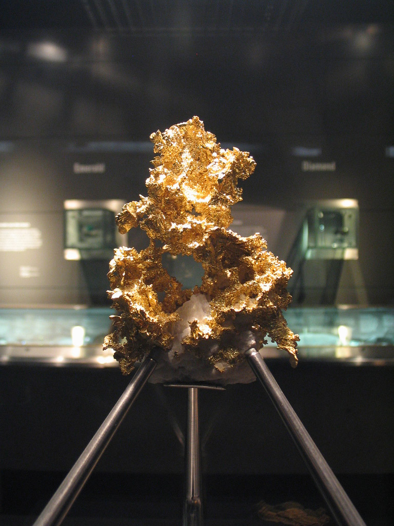 Crystalline native gold on display at the Natural History Museum, London.